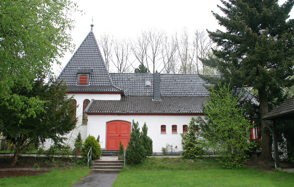 protestant Tersteegen Church, Cologne-Dünnwald, Germany.